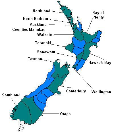 This is an indication where the teams of the Air New Zealand Cup come from. It has been edited to show the Provincial boundaries, therefore it is based upon a map that can be sighted at: The map was an original blank from: Summary This is an indication where the teams of the Air New Zealand Cup come from. It has been edited to show the Provincial boundaries, therefore it is based upon a map that can be sighted at: The map was an original blank from